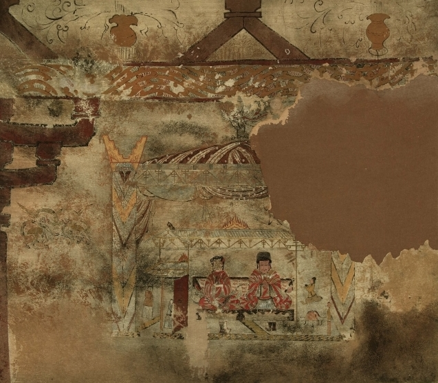 Occupant of the Tomb and his Wife